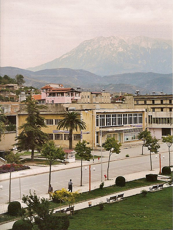 City center of Berat and Mount Tomorr